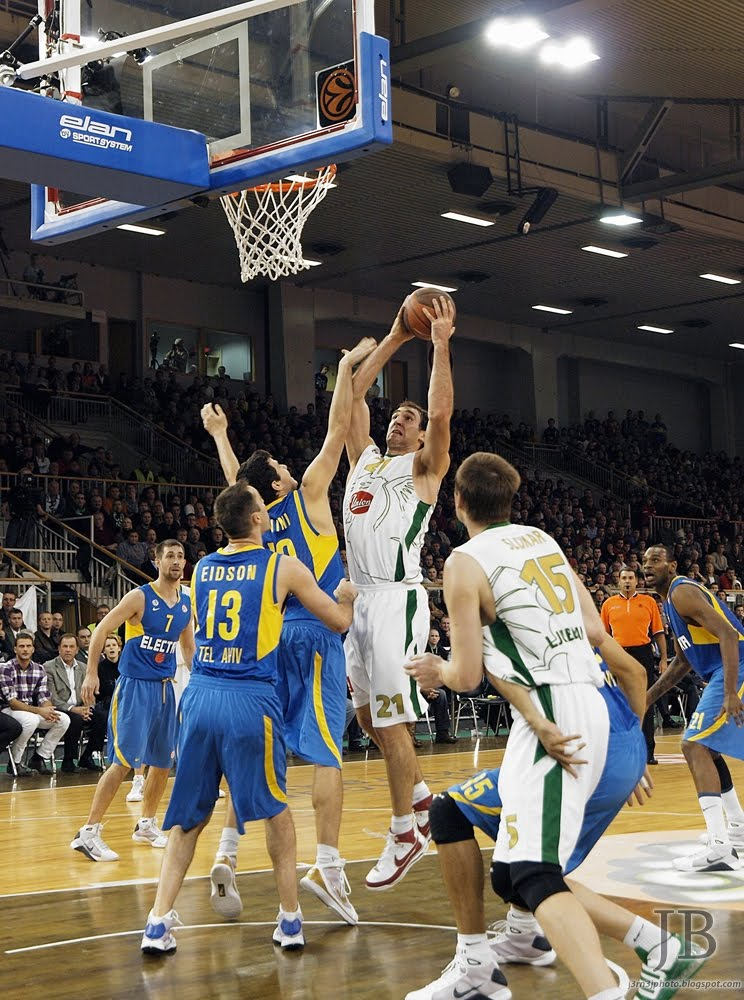 KK Union Olimpija vs Maccabi Tel Aviv in Hala Tivoli, Euroleague 2009/10